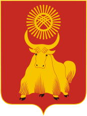 Kyzyl (Tuva), coat of arms (2005)